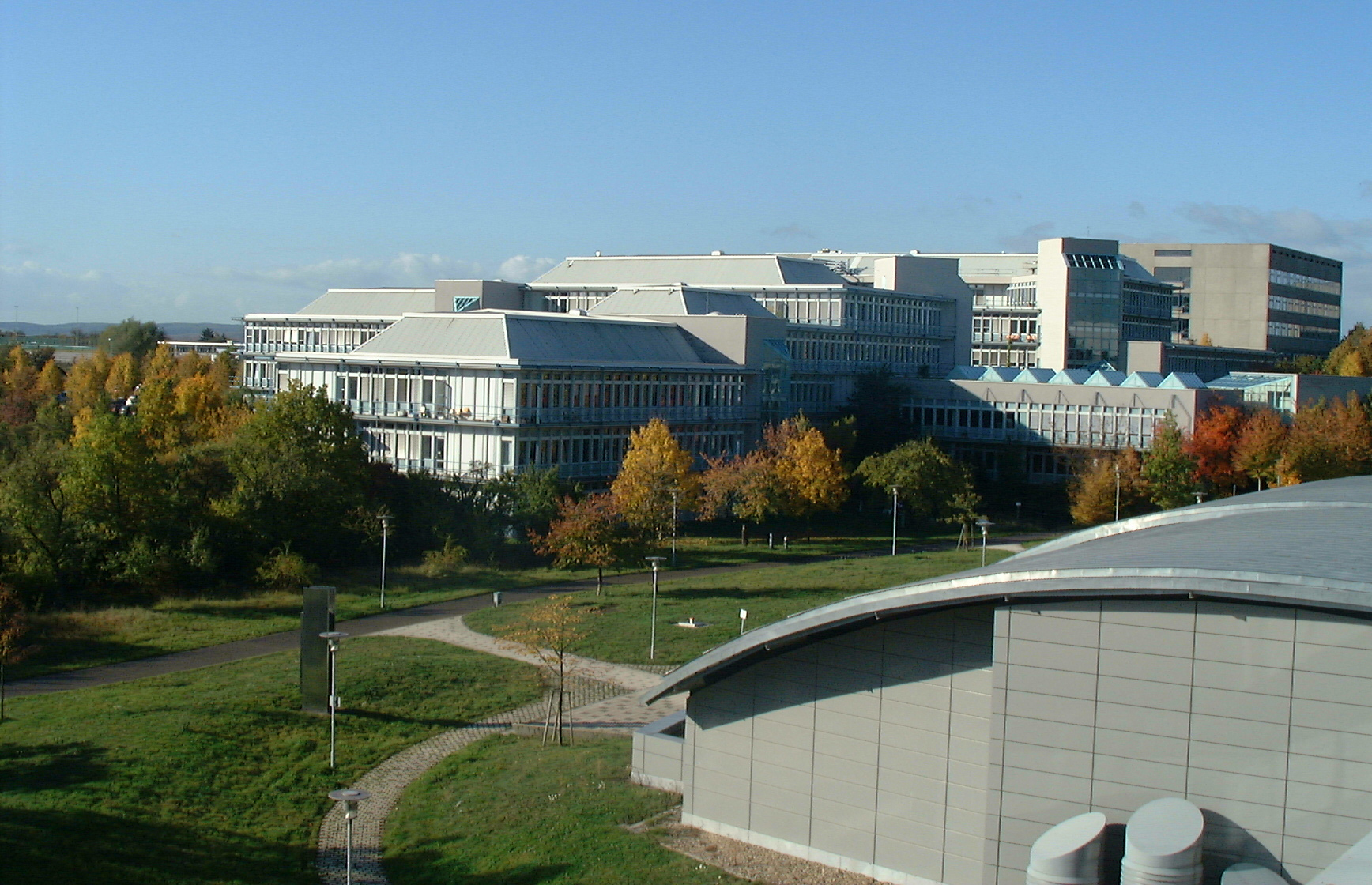 Wuerzburg University, Biocenter and Organic Chemistry